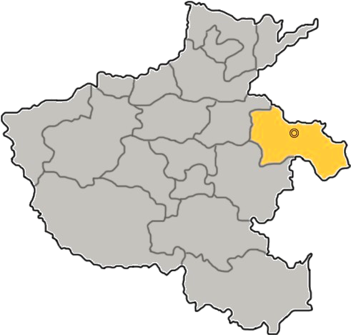 The prefecture-level city of Shangqiu is highlighted on this map of Henan province, People's Republic of China.